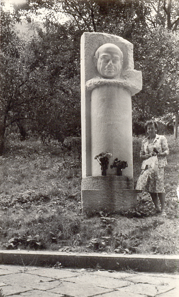 Monument of Rafail Popov in Madara, with his daughter Milka